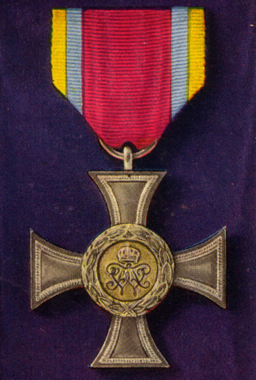 Mecklenburg-Strelitz War Service Cross for non combatants (1914/18)